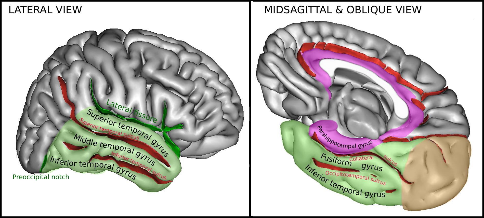 Ænglisc: Temporal lobe, gyri and sulci